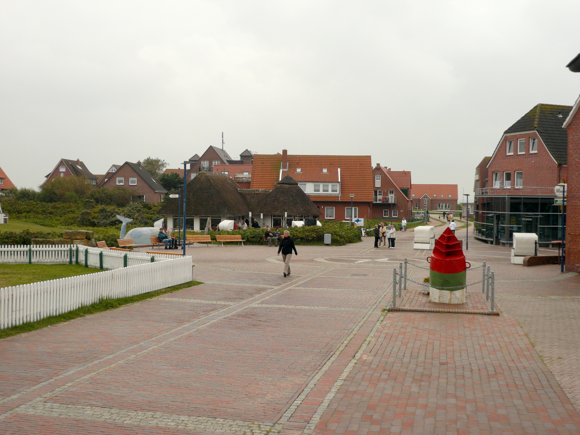 Village center of island Baltrum